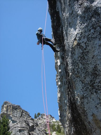 Rappelling from Upper Spire, Phantom Spires, Kyburz, CA. Photographer: Tom Cronin